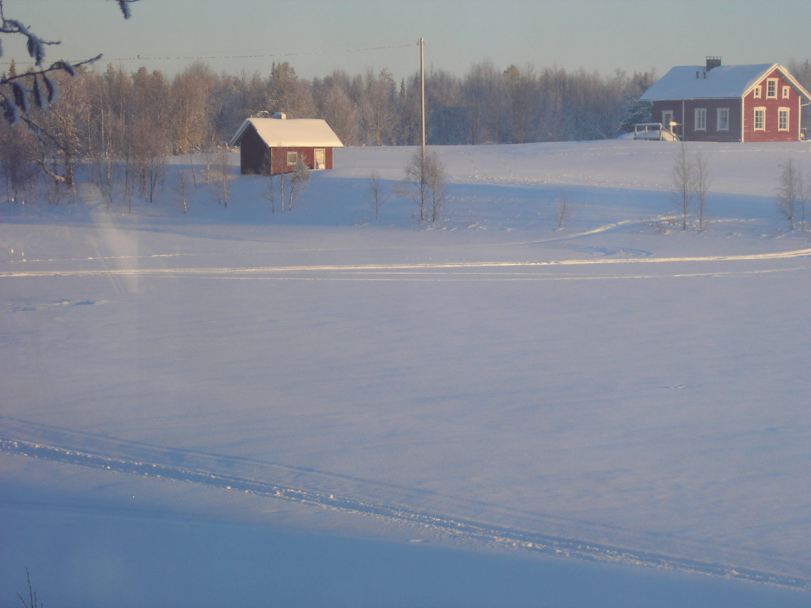 Ounasjoki in wintertime in Sikkola, Kittilä, Finland